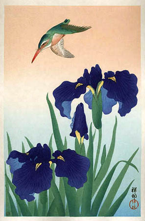 King-Fisher and Iris by Ohara Koson